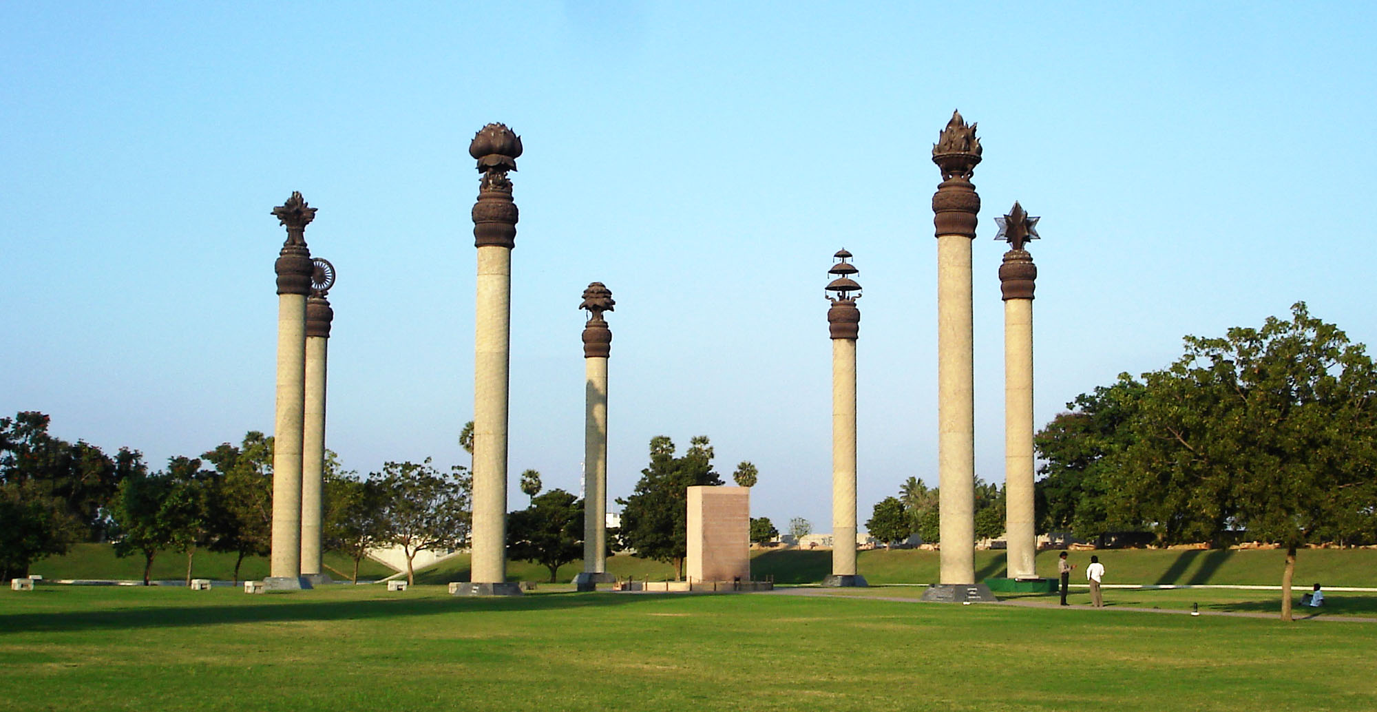 Seven pilliars, each featuring a human value surrounds the site of the blast, at the Rajiv Gandhi Memorial.